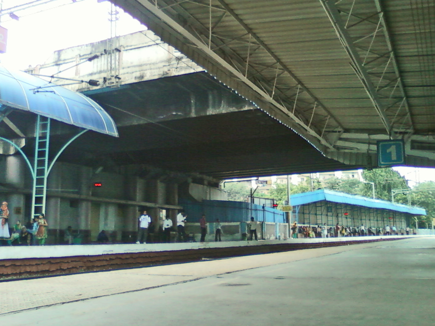 View of Begumpet Train station west end, Hyderabad